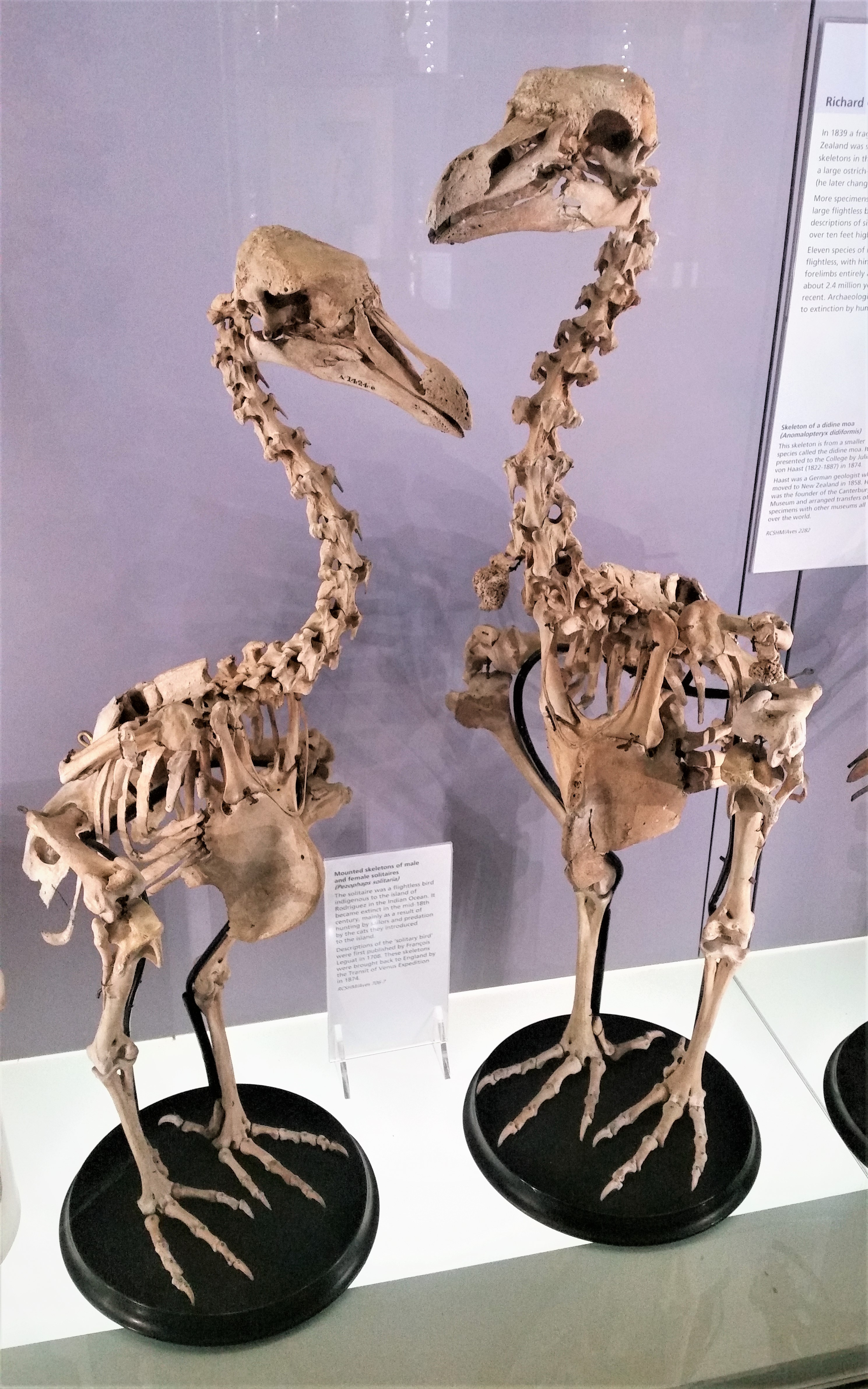 Mounted skeletons of a male and female solitaires (Pezophaps solitaria). The specimens are from the Hunterian Museum at the Royal College of Surgeons of England. The solitaire was a flightless bird indigenous to the island of Rodriguez in the Indian Ocean. It became extinct in the mid-18th century, mainly as a result of hunting by sailors and predation by the cats they introduced to the island. Description of the 'solitary bird' were first published by Francois Leguat in 1708. These skeletons were brought back to England by the Transit of Venus Expedition in 1874.